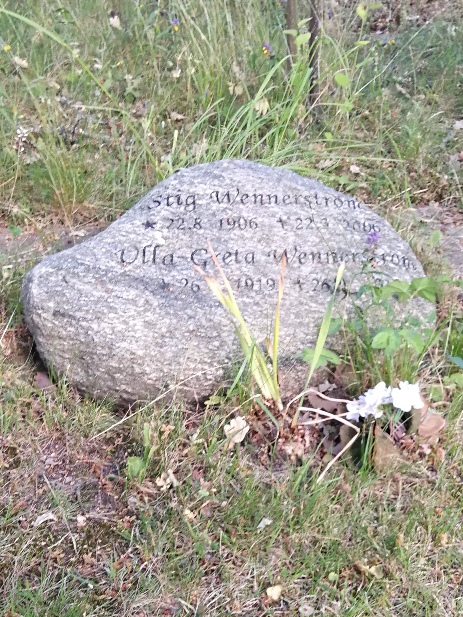 The tomb of the Sweidsh spy, colonel Stig Wennerström. The cemetery in Djursholm, north of Stockholm, Sweden.